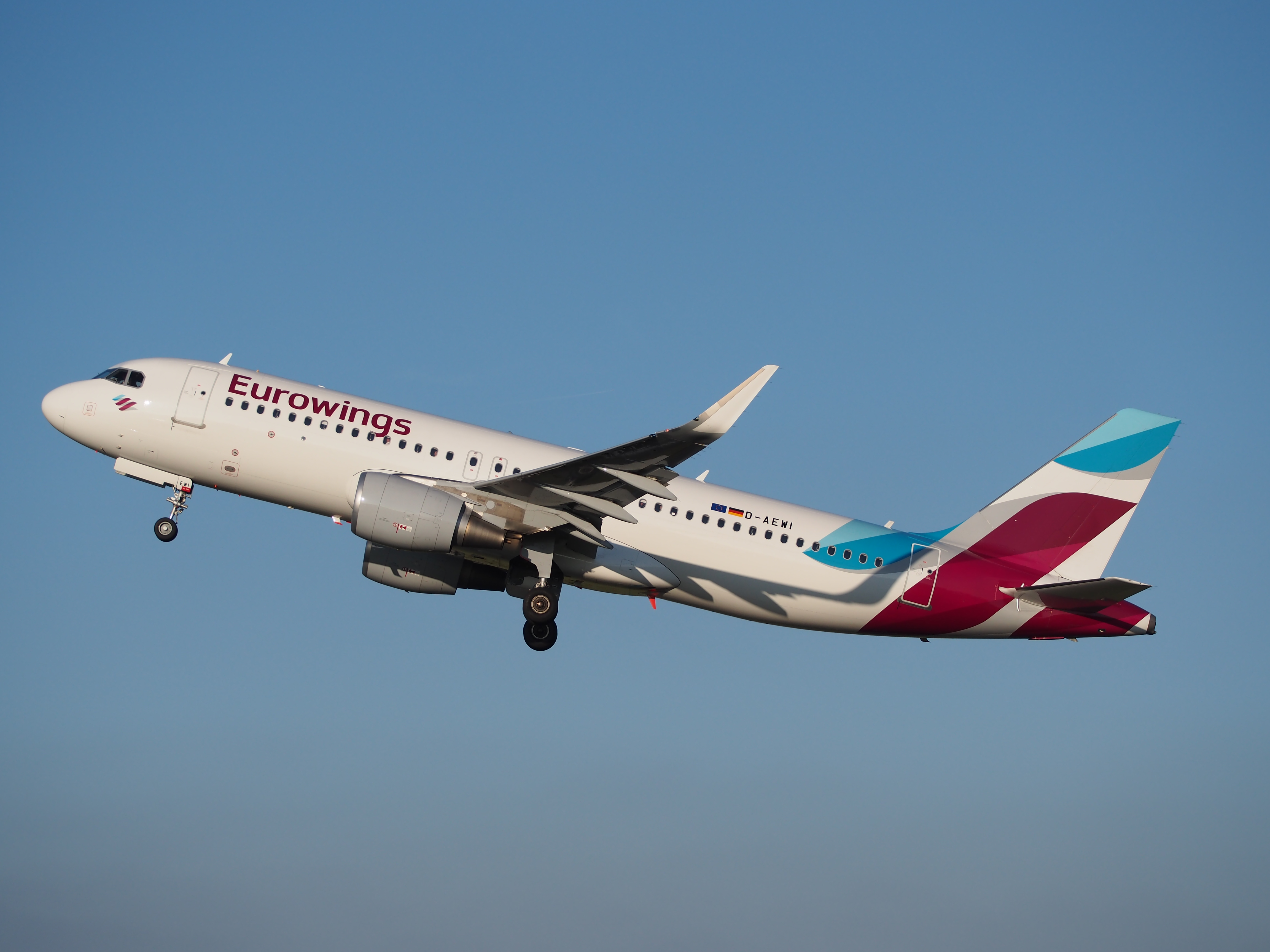 Photographed at Schiphol (AMS - EHAM), The Netherlands.